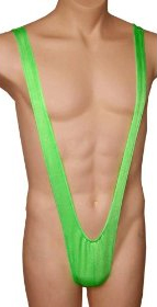 Computer "built" image to show what a "mankini" is, made famous by Borat.